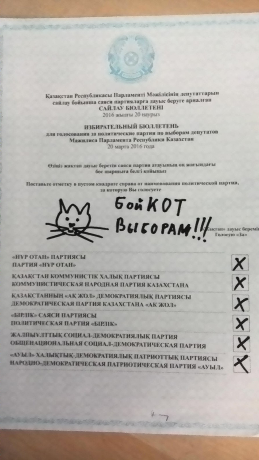 A spoilt ballot from the 2016 Kazakhstan parliamentary election.